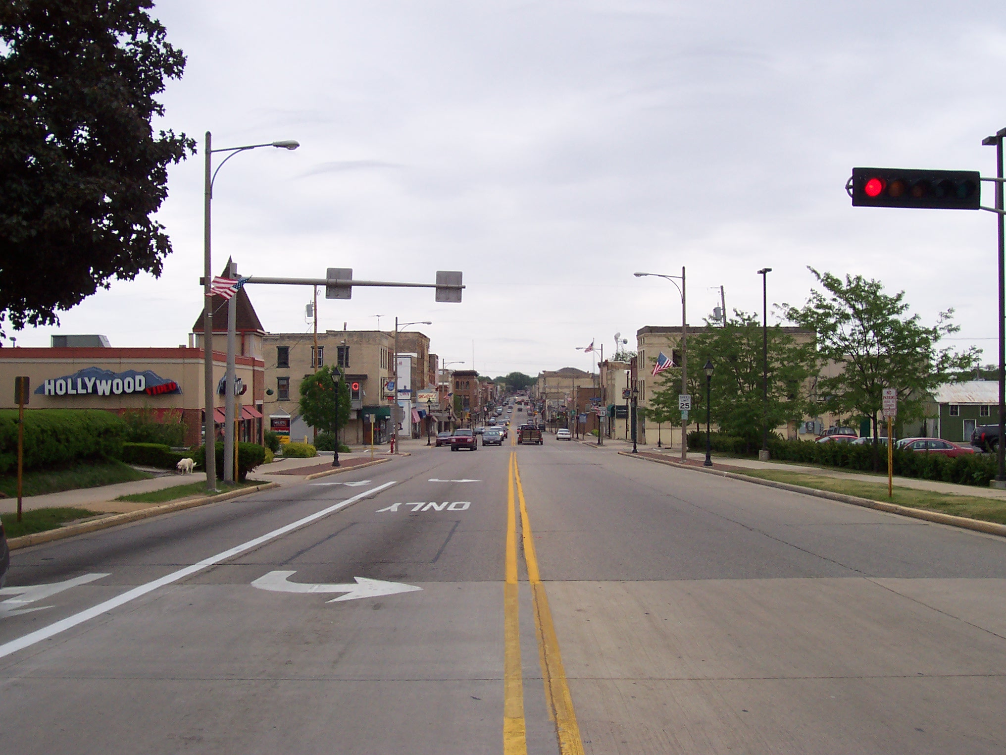 The Rock River at Riverside Park in Watertown, WI.